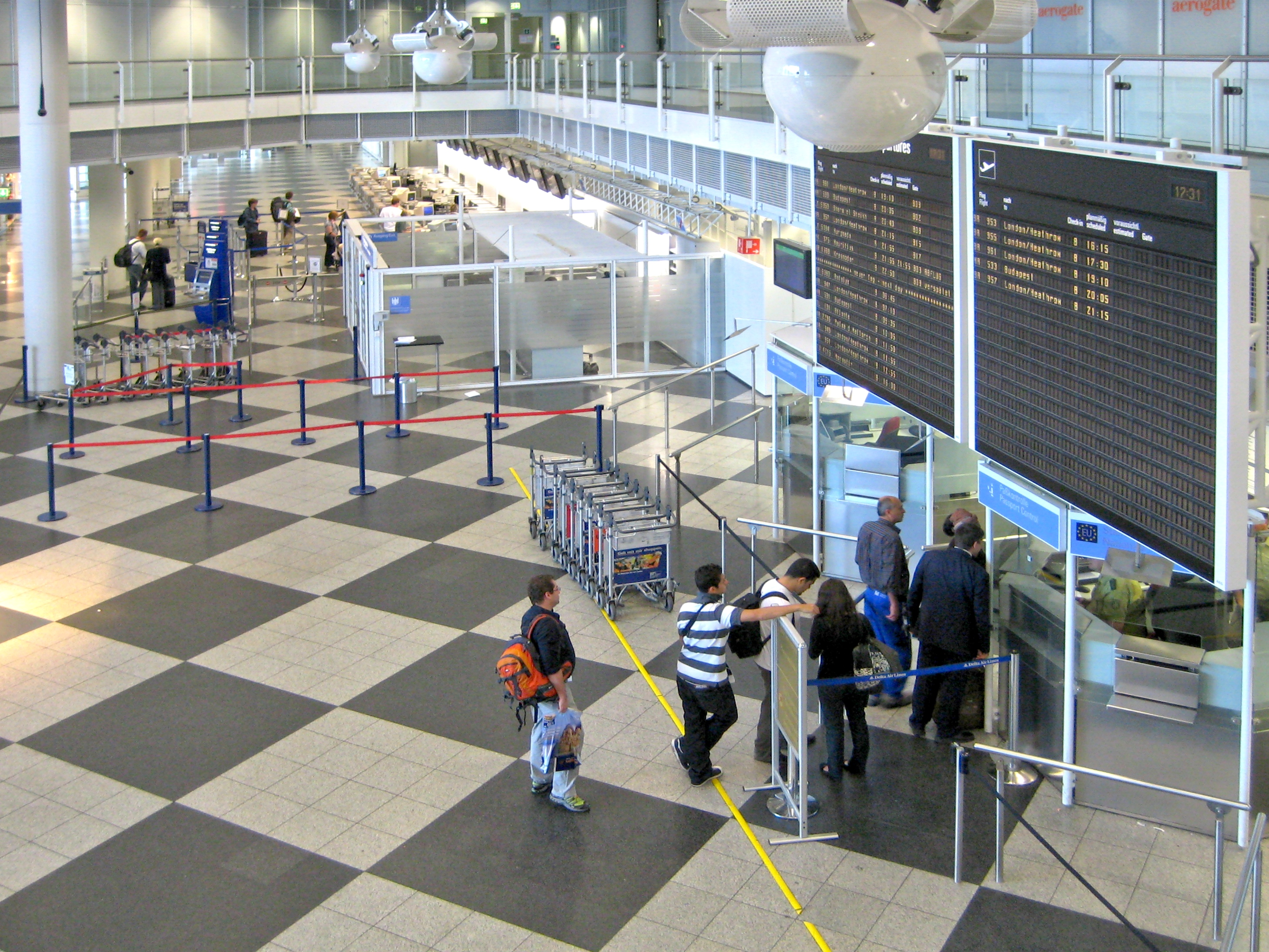 Munich International Airport, Terminal 1, Level 4, departures gate